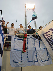 Picture of the SOS